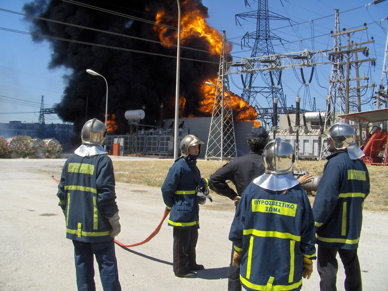 Fire in ultra-high voltage tranformer. Thessaloniki, Greece.